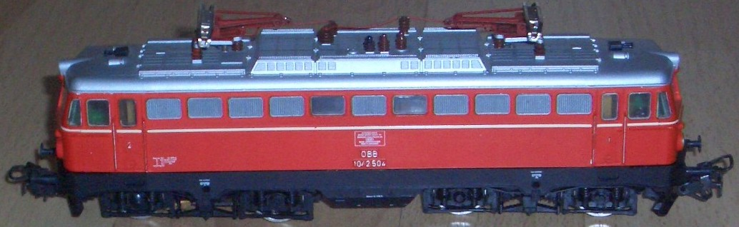 Liliput model of Austrian loc 1042 504 (ÖBB )